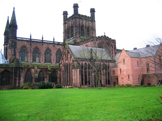 Chester Cathedral from Abbey Street The light coloured sandstone building on the right is the new Song School, which was finished in 2005. The open area is where the Chester Mystery Plays are performed every five years with 2008 being the next performance